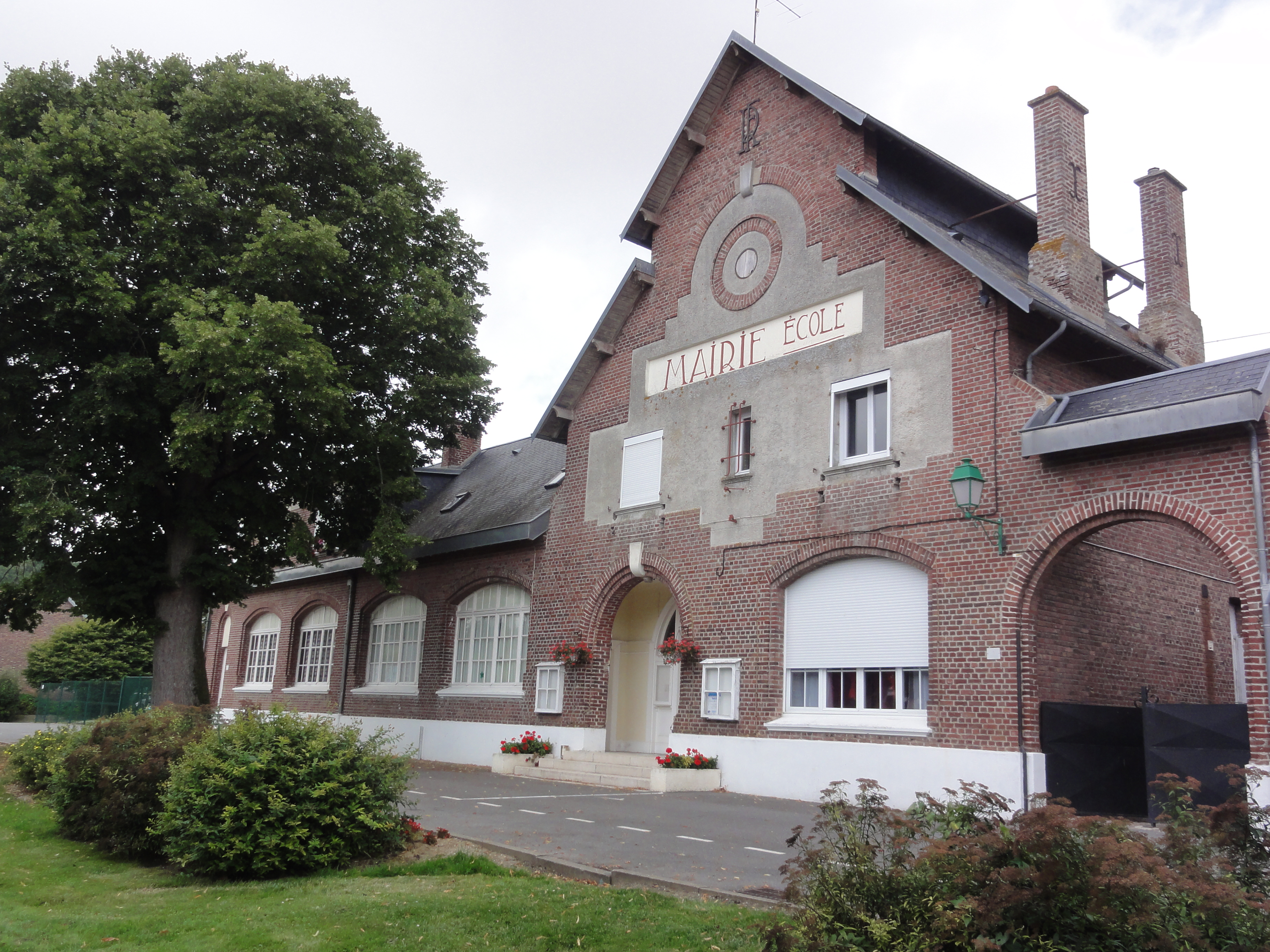 Foreste (Aisne) mairie-école